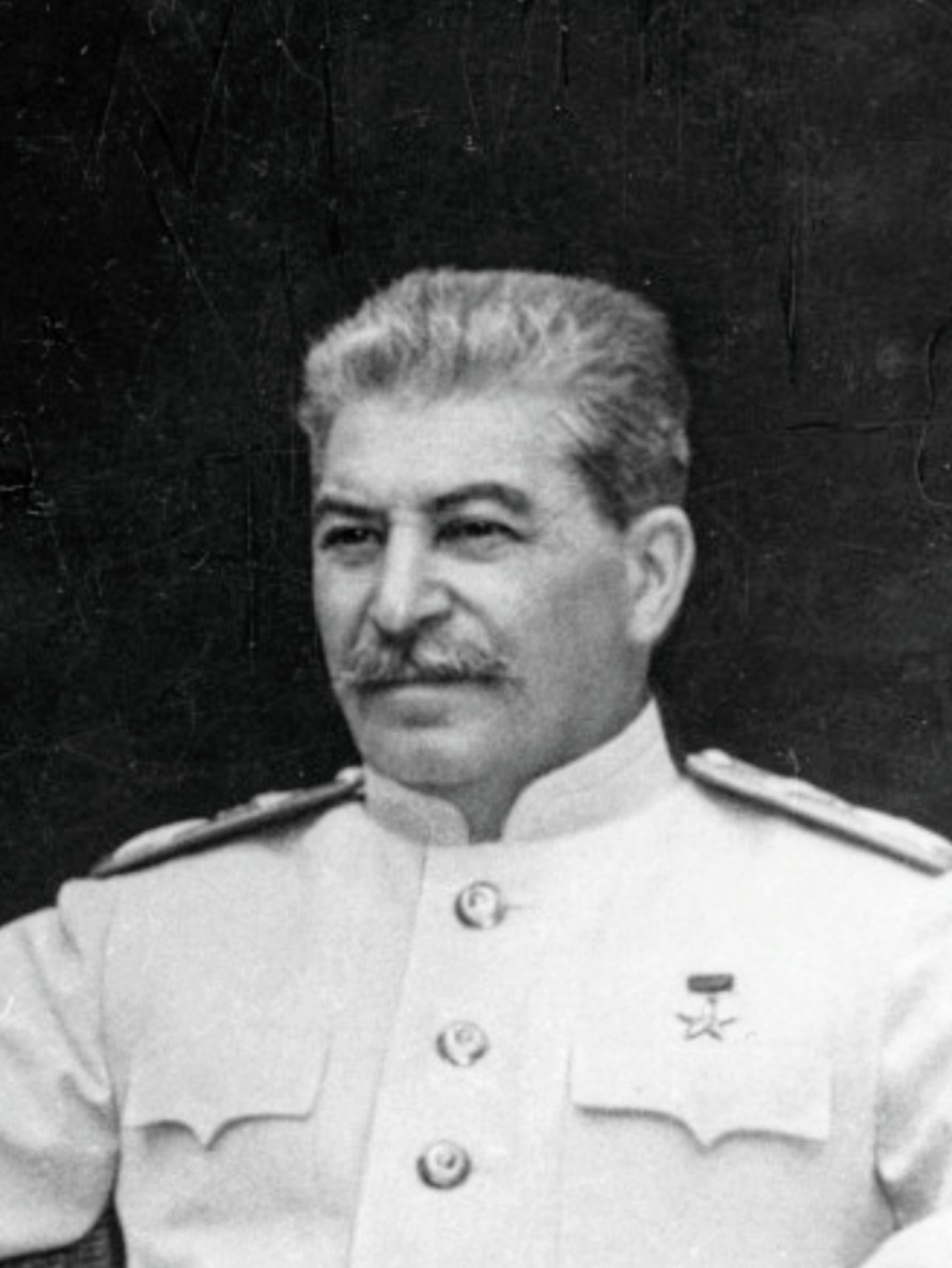 Photo of Joseph Stalin at Potsdam Conference; cropped and exposure adjusted before being reuploaded by Emiya1980